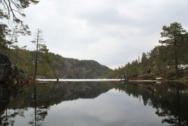 Røsskleivvatnet, small lake in the Kolebakkane nature reserve in Gloppen, Norway